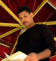 Portrait of Fernando Cabrera, Dominican writer